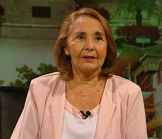 Beatriz Parra speaking on a UCSG Television program named "Mesa de Análisis"